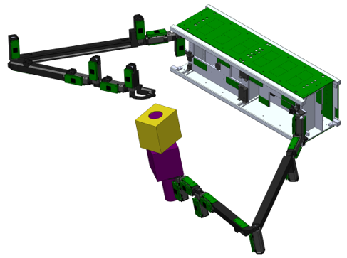 Repair Satellite-Prototype (RSat-P) is a microsatellite built by the United States Naval Academy (USNA) in Annapolis, Maryland. The small spacecraft is a 3U CubeSat intended to demonstrate capabilities for in-orbit repair of a much larger, conventional spacecraft. It was launched to low Earth orbit on 16 December 2018.